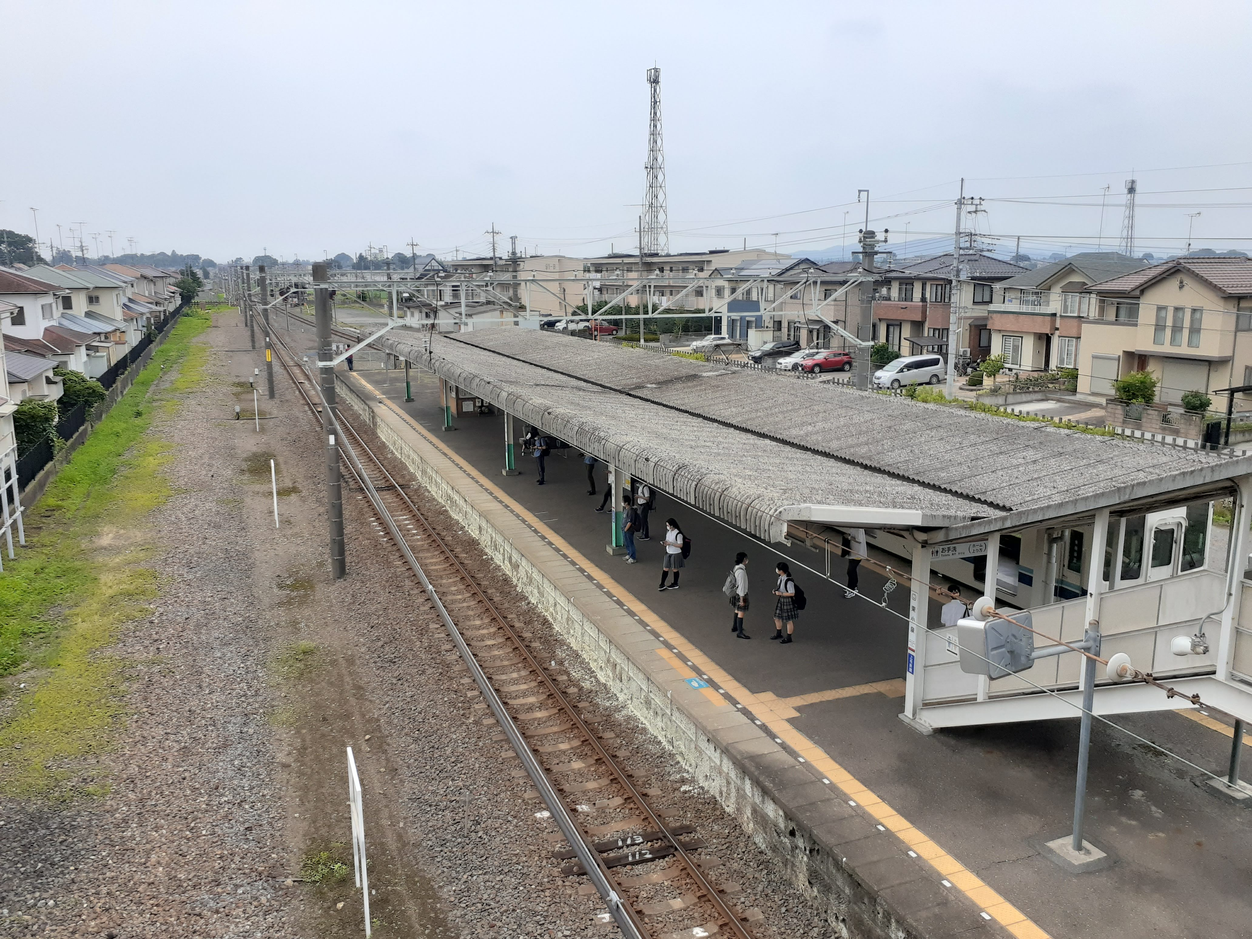 Higashi-Koizumi Station Platform of the Tōbu Koizumi Line, Ora, Gunma, Japan